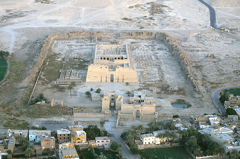 View to the temple region of Medinet Habu, Luxor West Bank, Egypt